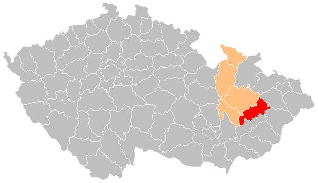 District of Přerov